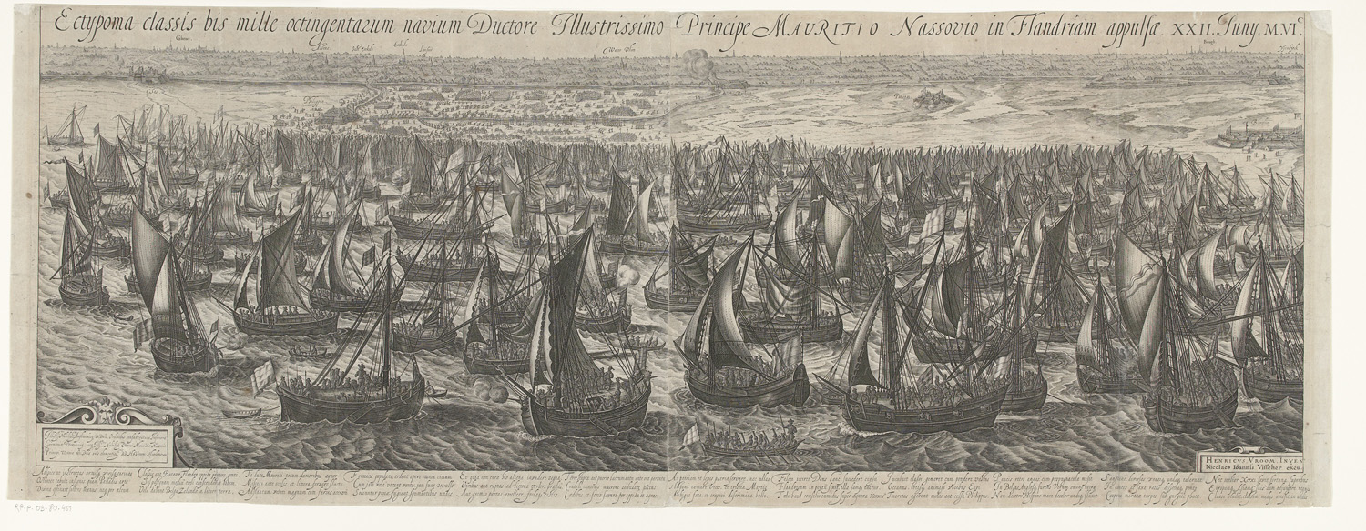 Battle and liberation of fortress Philippines, 1635. Etching.